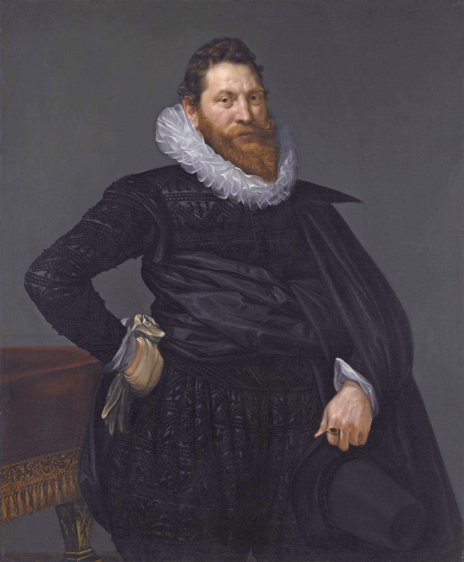 Portrait of Volckert Overlander (1570-1630), Knight, Lord of Pumerland and Ilpendam, Mayor of Amsterdam